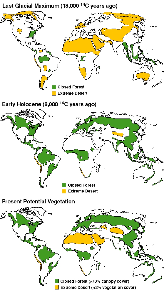 During the Last Glacial Maximum 14000 years ago, thermal-driven evaporation from the oceans onto continental landmasses was low, causing large areas of extreme desert, including polar deserts (cold but with low rates of precipitation). Greater precipitation today creates a much different distribution of climatic zones, although anthropogenic changes including agriculture prevent forest cover from reaching its theoretical potential. Near the start of the Atlantic Period, 8000 years ago, the world's climate was warmer and wetter than today according to an ORNL estimate.